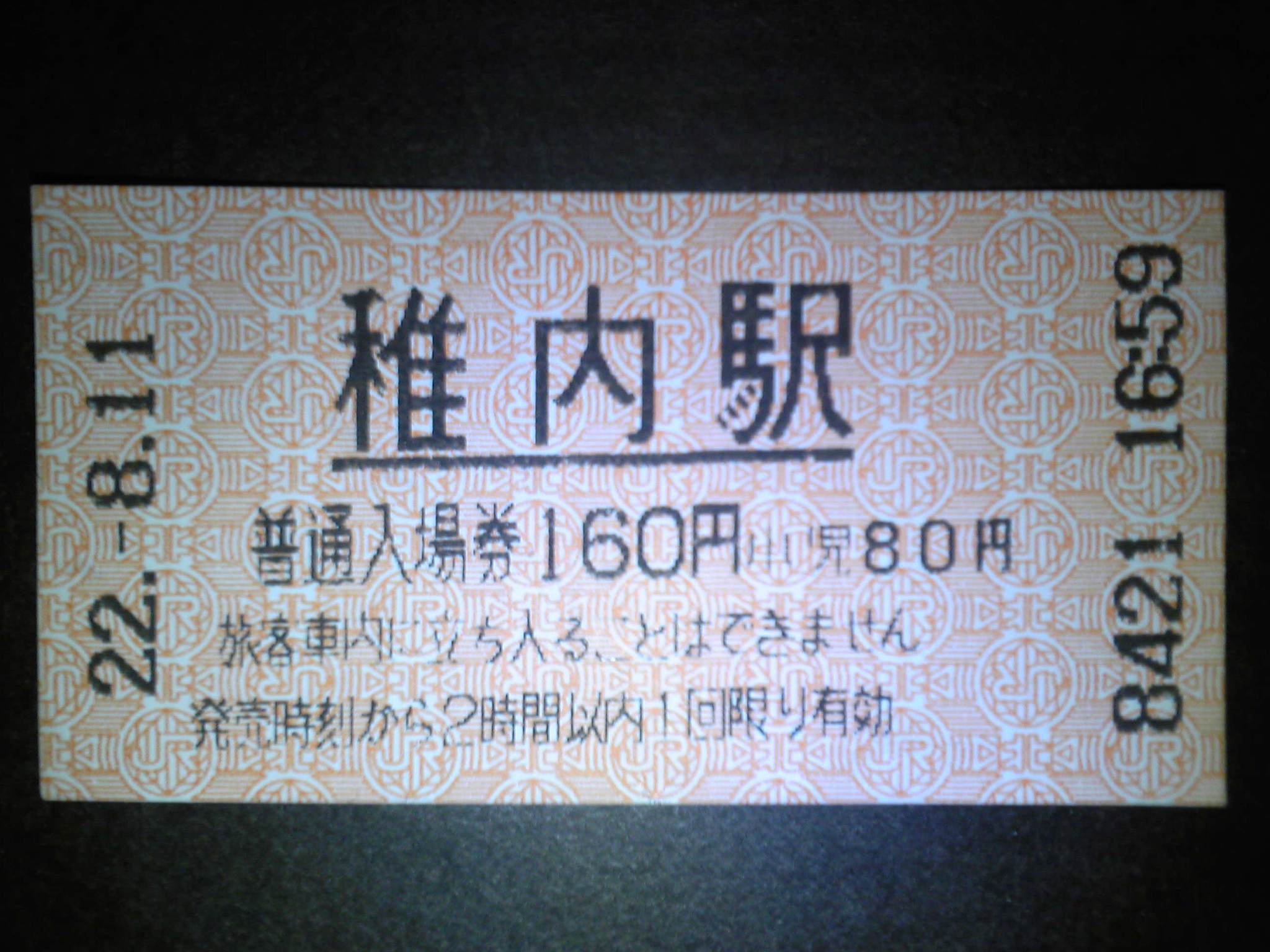 Platform ticket of Wakkanai station.